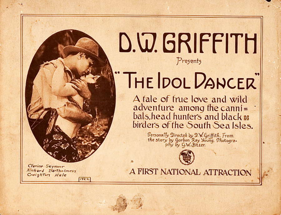 Lobby card for the American drama film The Idol Dancer (1920) with Richard Barthelmess and Clarine Seymour.